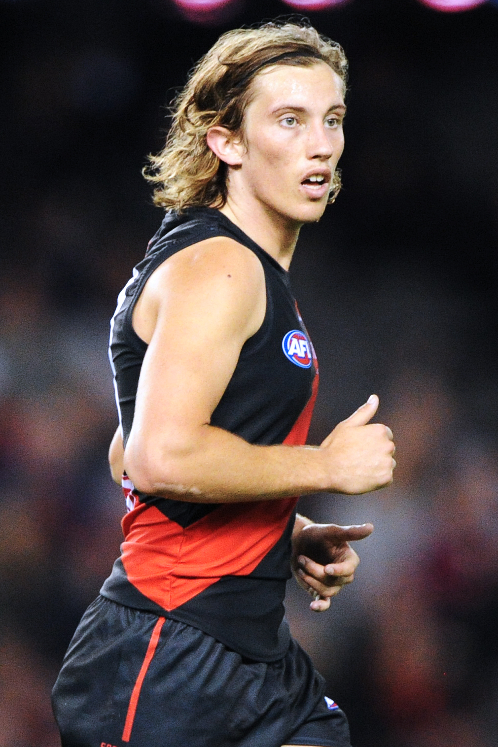 Kobe Mutch of Essendon during the 2018 AFL round 6 match between Essendon and Melbourne at Etihad Stadium on Sunday, 29 April 2018 in Melbourne, Victoria.